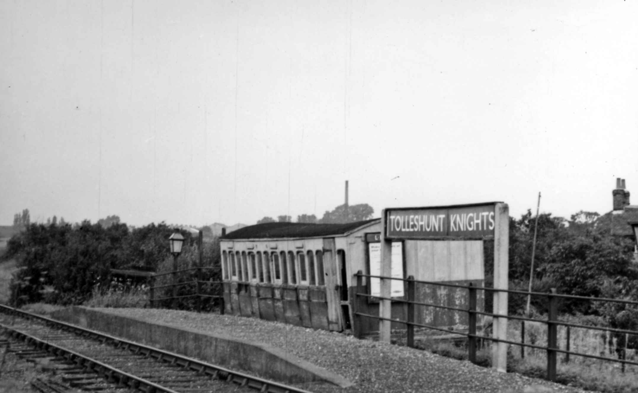 Tolleshunt Knights Halt, 1950View SE, towards Tollesbury: Kelvedon & Tollesbury Light Railway (ex-GER), closed 7/5/51.